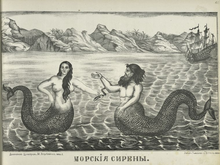 Mermen. Russian lubok.